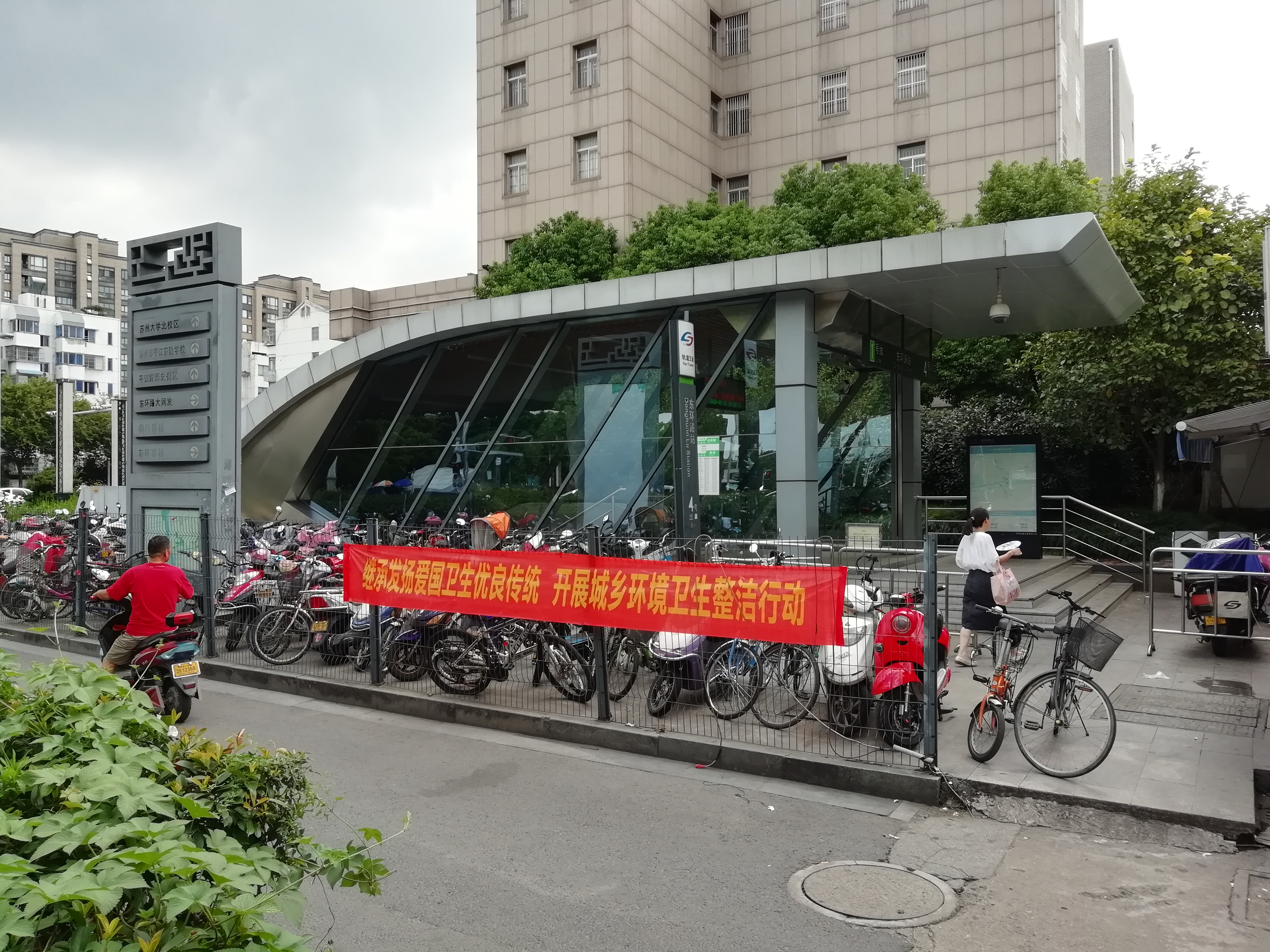 Exit 4 of Donghuan Lu Station of Line 1, Suzhou Rail Transit 中文（中国大陆）: 苏州轨道交通1号线东环路站4号口